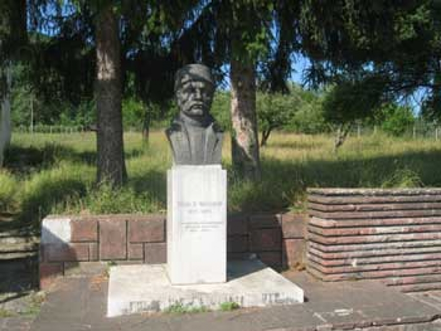 Filyo Radev ??